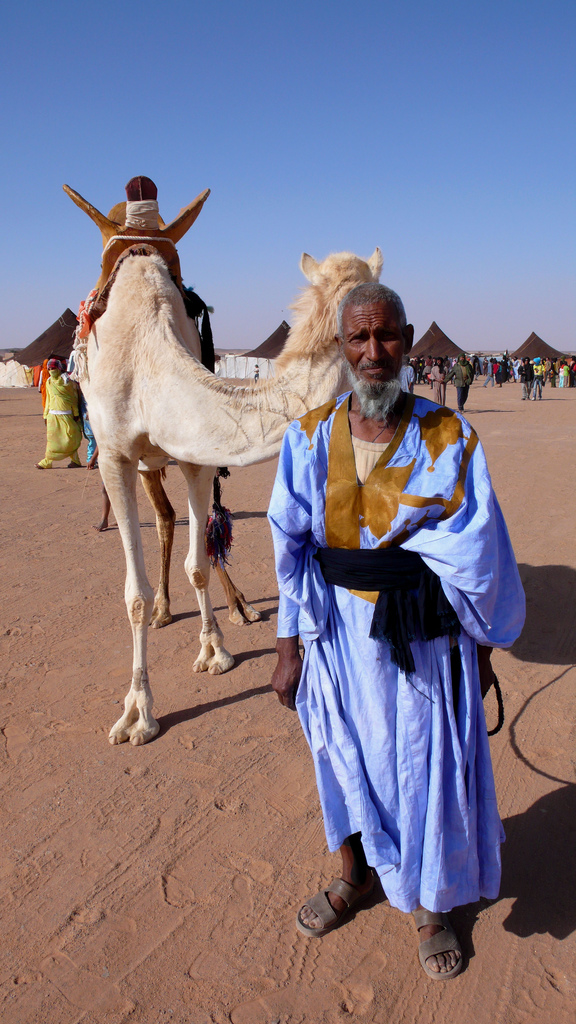 Old Sahrawi man and his camel, in the Dakhla refugee camp, in Tindouf province (Algeria).